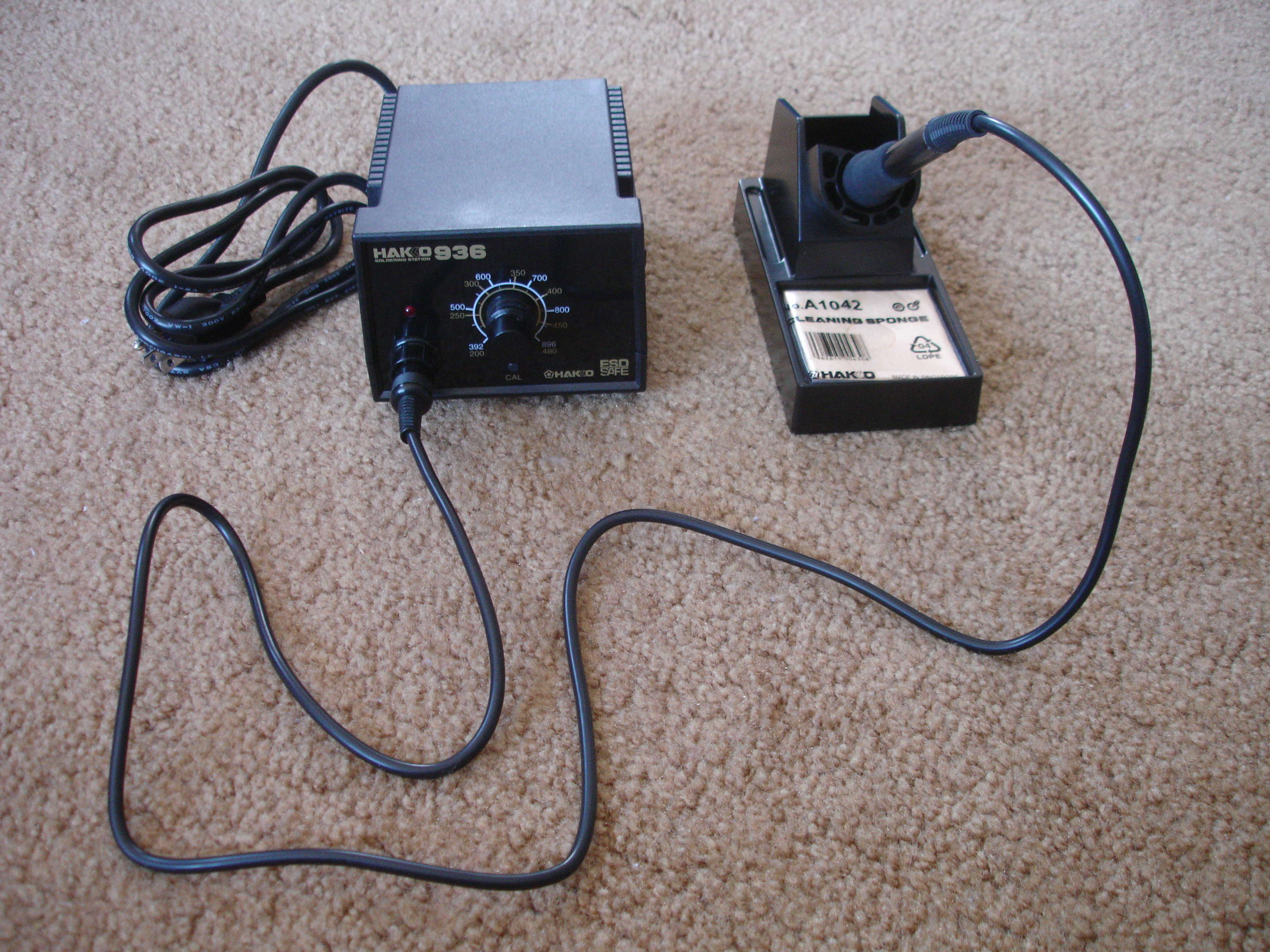 Hakko 936 ESD soldering station with 907 ESD medium soldering iron and stand.